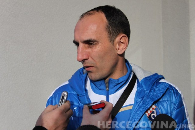 NK Dinamo Zagreb